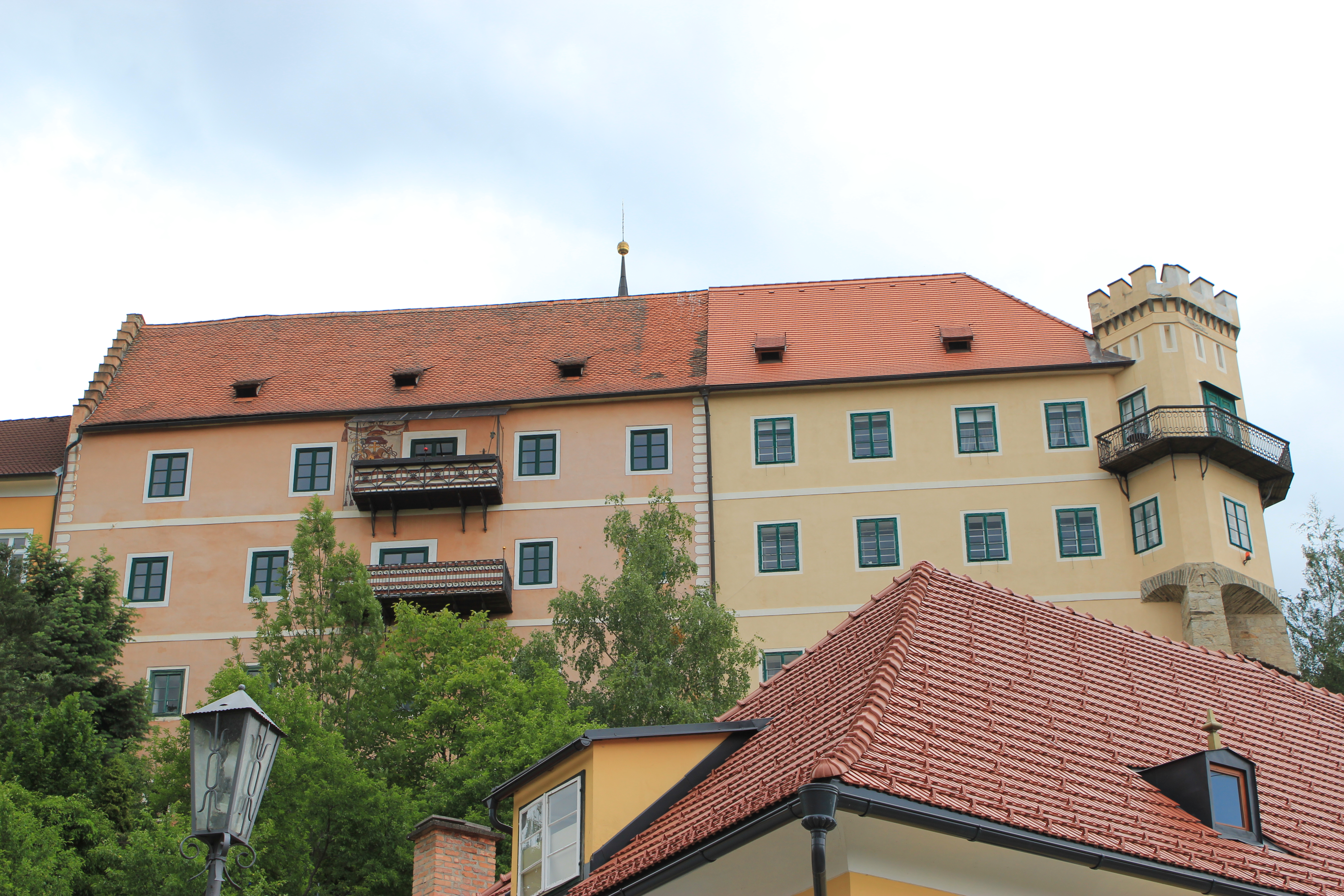 New castle in Althofen